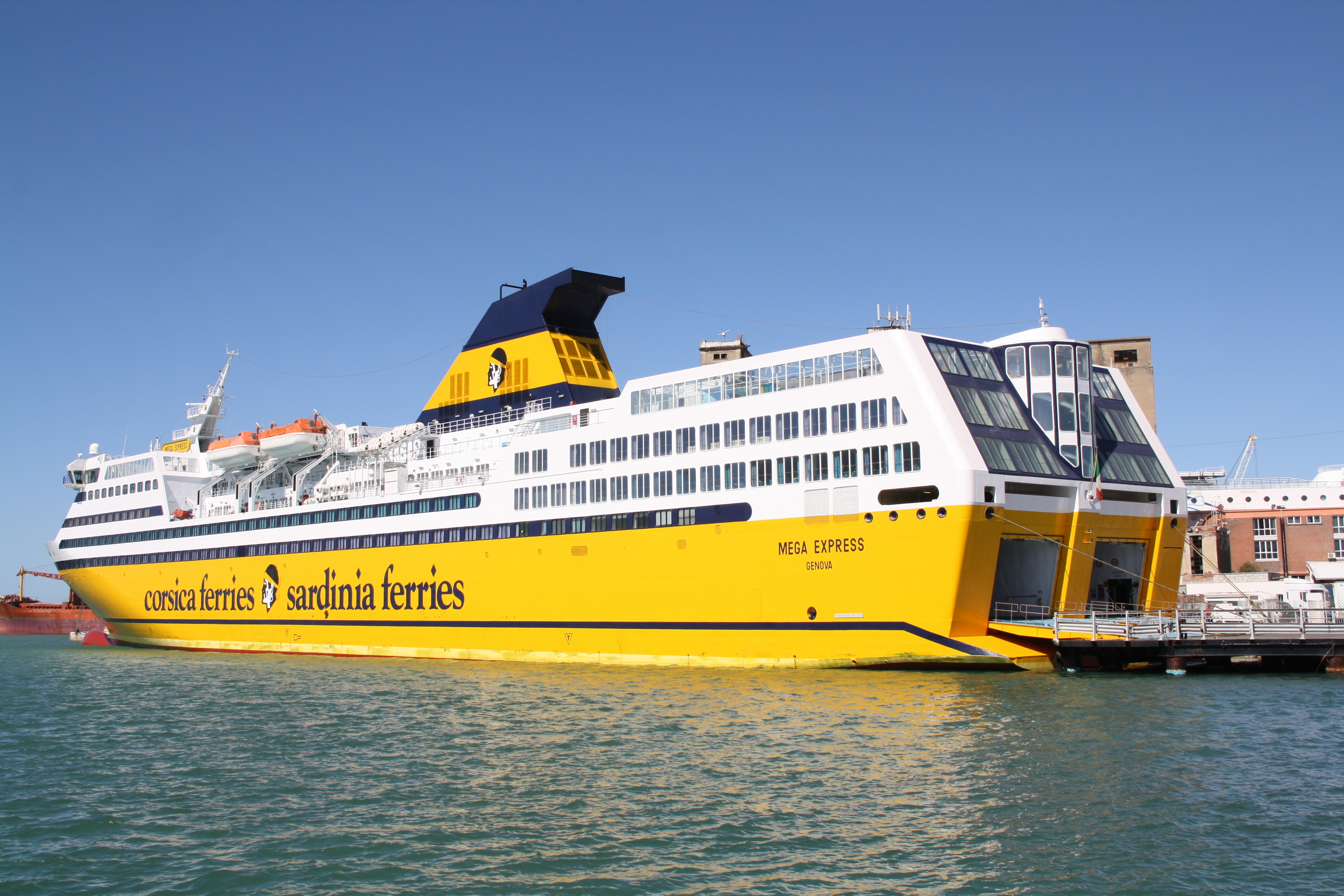 Italy Shipowner: Forship S.p.A., Vado Ligure Operator: Corsica Ferries - Sardinia Ferries IMO: 9203174 MMSI: 247013400 Call sign: IBPR Type: Ropax Builder: Cantiere navale fratelli Orlando Yard number:273 Year of construction: 2001 Delivery date: 2001 Port of registry: Genoa Gross tonnage: 26,024 t DWT: 3,500 t Length overall: 172.70 m Breadth: 24.82 m Draught: 6.55 m Main engine: 4 x Wärtsilä-NSD 12V46C diesel engines Engine power: 50,400 kW Speed: 28 knots Passengers: 1880